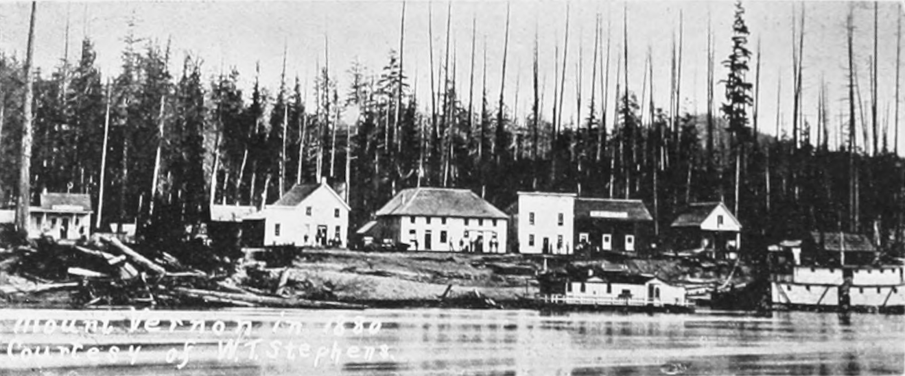 From page 194 of An Illustrated History of Skagit and Snohomish Counties, published in 1906. Inscription reads: "Mount Vernon in 1880 / Courtesy of W. T. Stephens."